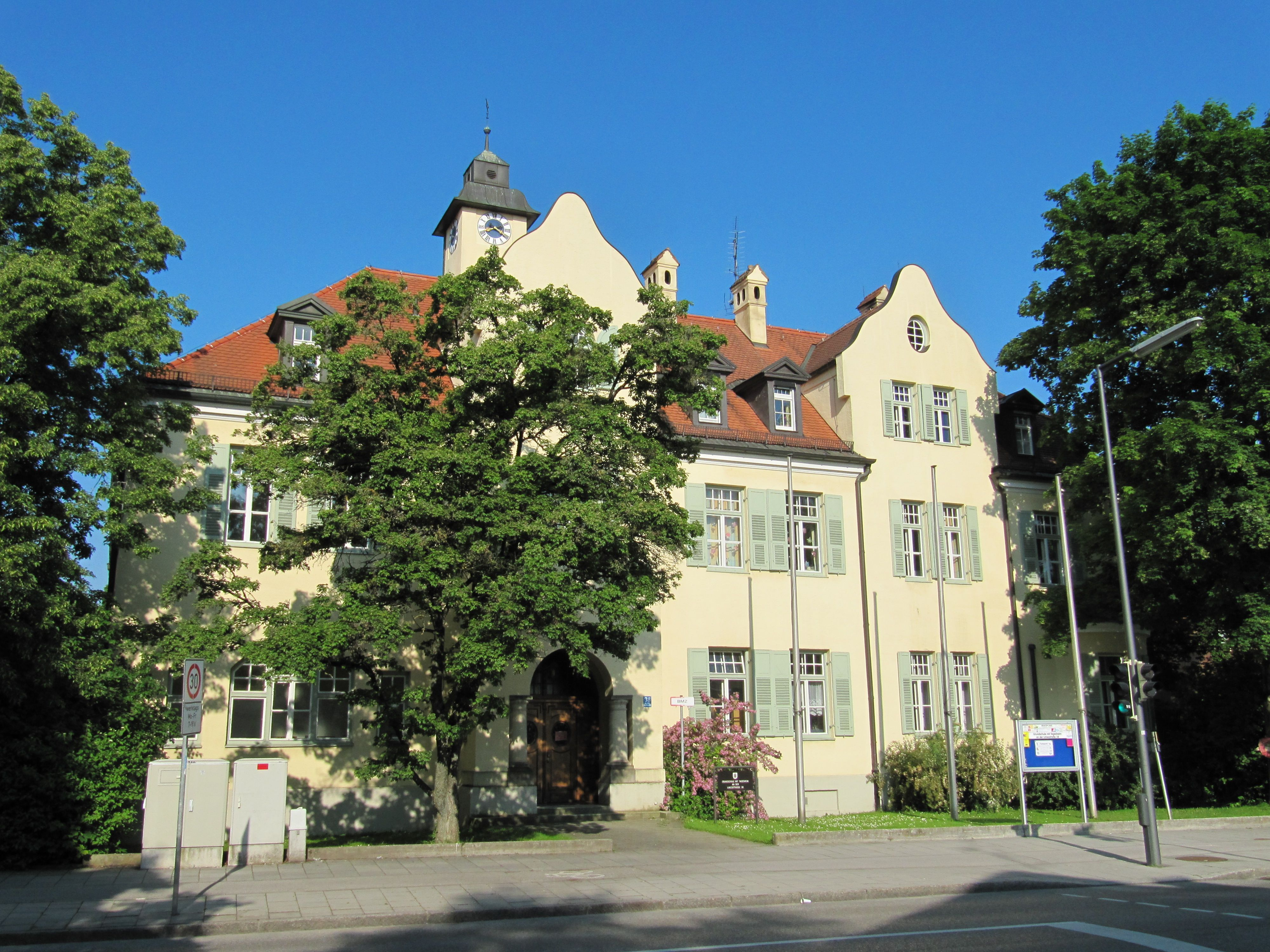 Munich-Aubing: School "Schule an der Limesstraße".